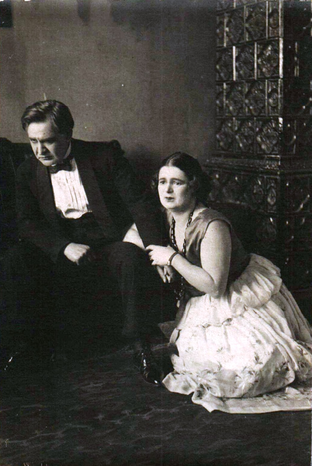 Petar Stoychev and Teodorina Stoycheva